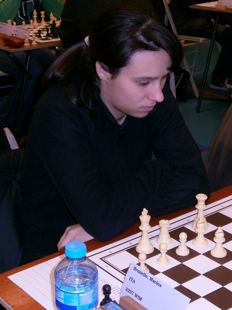 Marina Brunello playing in the Groningen Chess Festival 2012 in Groningen (the Netherlands)